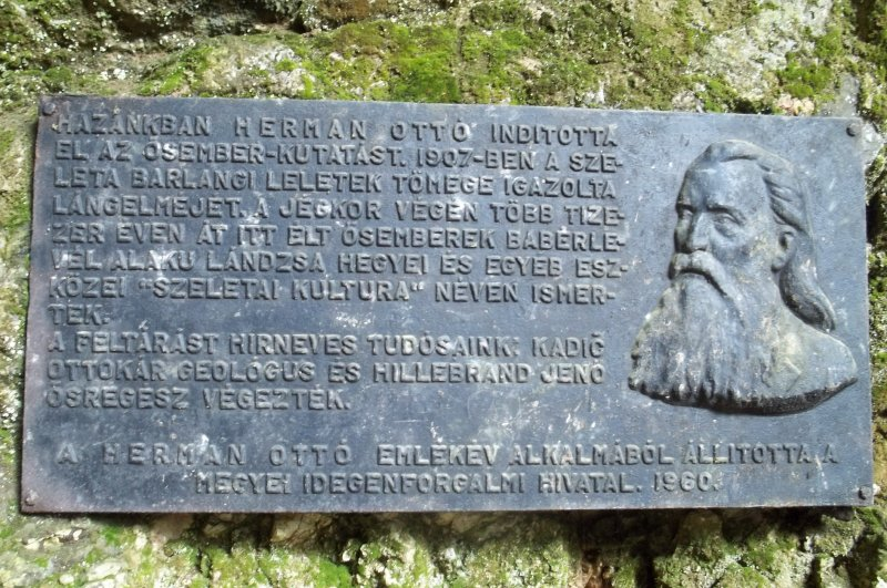 Commemorative plaque of Ottó Herman in the Szeleta Cave